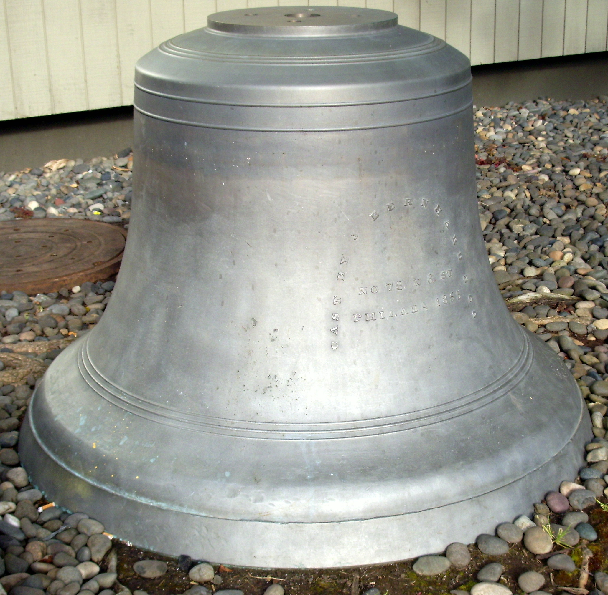 The fog bell formerly installed at Cape Disappointment Light, West Point Light, and Warrior Rock Light. It now sits outside the Columbia County Courthouse in Oregon, about 1 mile NNW of its last site at Warrior Rock Light.